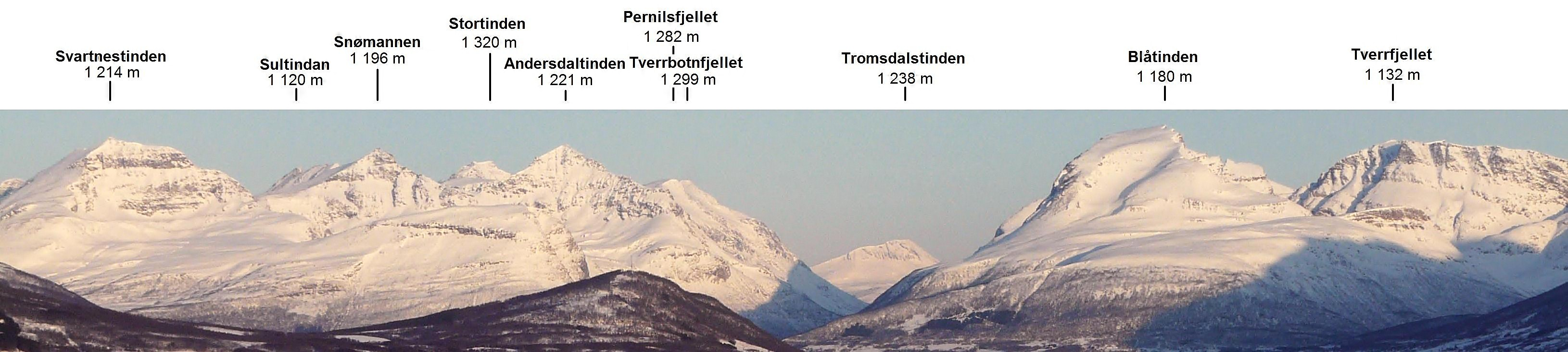 Peaks over the Balsfjorden to the north as seen from Nordkjosbotn to the west by the E6 highway in 2009 February.